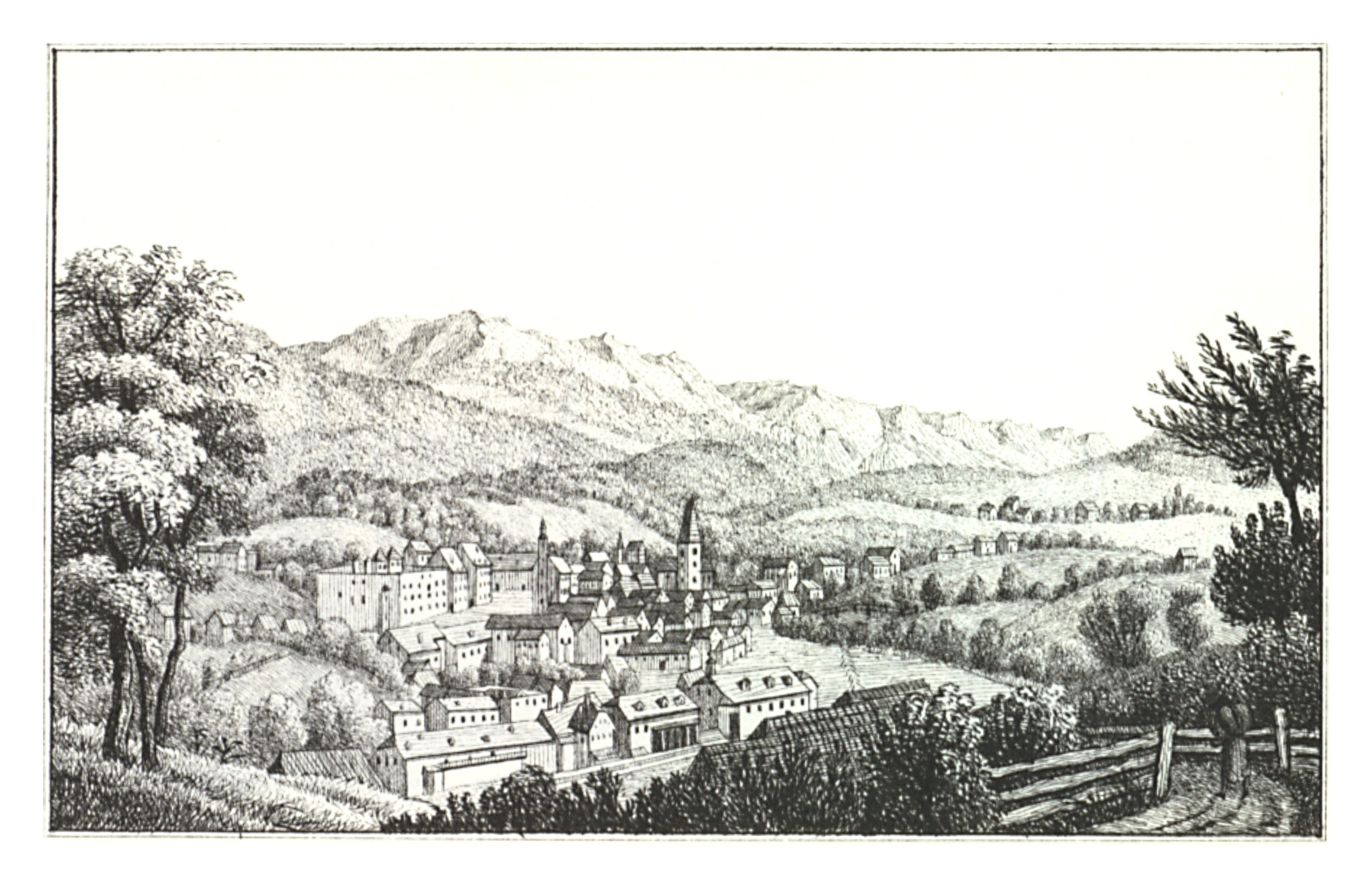 J. F. Kaiser - lithographirte Ansichten der Steyermärkischen Städte, Märkte und Schlösser Graz, 1825 Joseph Franz Kaiser (1786–1859) Alternative names J. F. KaiserDescriptionAustrian printer and editorDate of birth/death 11 March 1786 19 September 1859Location of birth/death Graz (Styria) GrazAuthority control : Q1499963 VIAF: 30629353 ISNI: 0000 0000 3083 0153 LCCN: n87141671 GND: 129880159 NLP: A24960305 WorldCat creator QS:P170,Q1499963 Scanprojekt Community Projektbudget 2012 This scan or this PDF-file was created within the GLAM-project Bookscanning, supported by Wikimedia Germany and Wikimedia Austria as a part of the community-project to capture books, documents and pictures which are not eligible to copyright or for which the copyright has expired. This document describes or depicts an object which is located in Austria today. Send requests for uncompressed scans to Hubertl. This work is in the public domain in its country of origin and other countries and areas where the copyright term is the author's life plus 100 years or less. You must also include a United States public domain tag to indicate why this work is in the public domain in the United States. This file has been identified as being free of known restrictions under copyright law, including all related and neighboring rights.